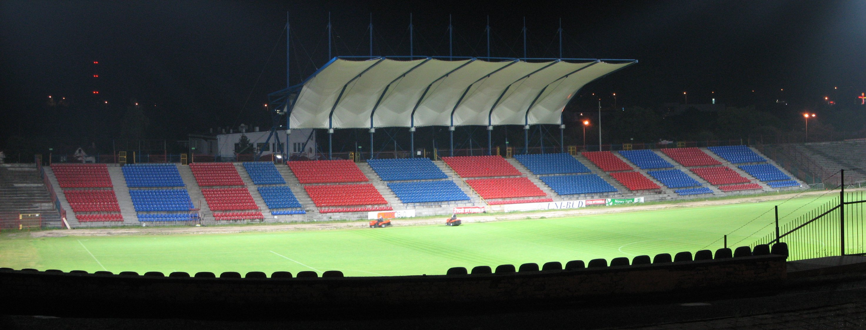 Edward Szymkowiak Stadium at night.